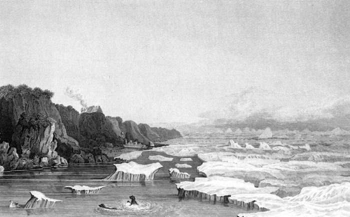 “View to Seaward from Flaxman Island” ( August 5, 1826) [drawn by George Back]